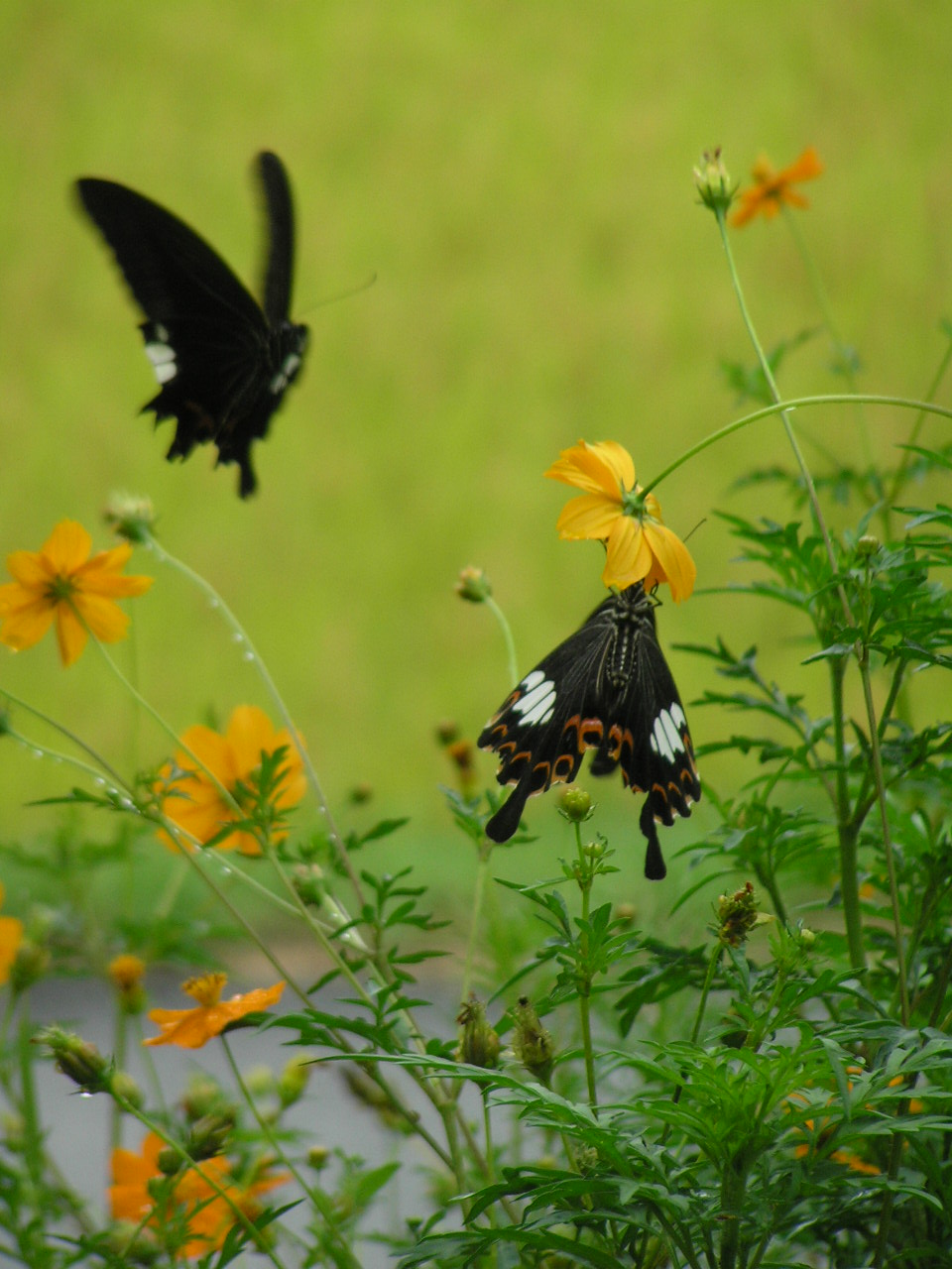 Papilio helenus 8232173モンキアゲハ紋黄揚羽 モンキアゲハ（紋黄揚羽）Papilio helenus は、チョウ目・アゲハチョウ科に分類されるチョウの一種。日本最大級のチョウで、後翅に黄白色の大きな斑紋があるのが特徴である。